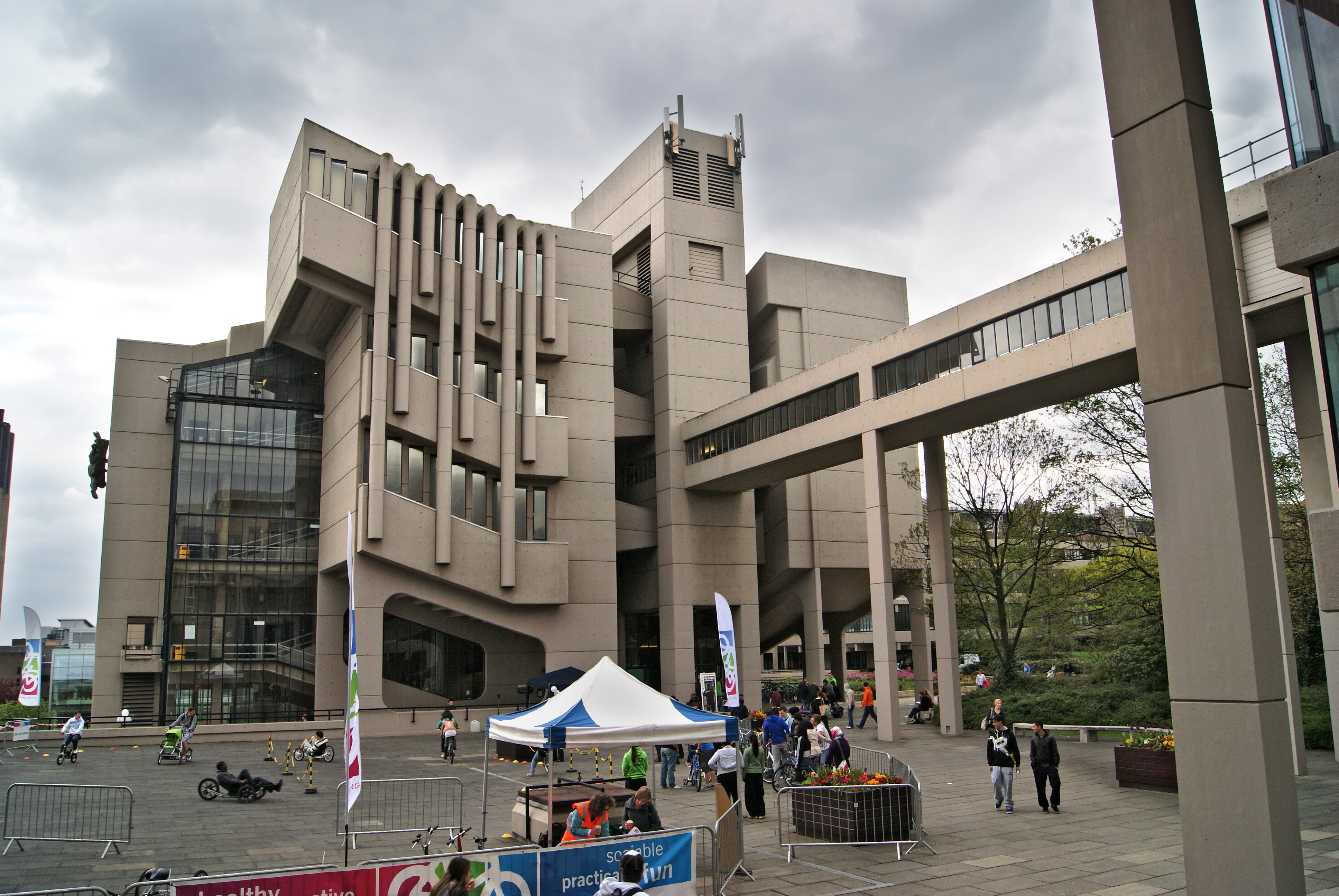 The Roger Stevens Building at the skyway linking it with the Maths/ Earth and Environment Building which can be seen overhead. Taken at the University of Leeds on the afternoon of Tuesday the 4th of May 2010.